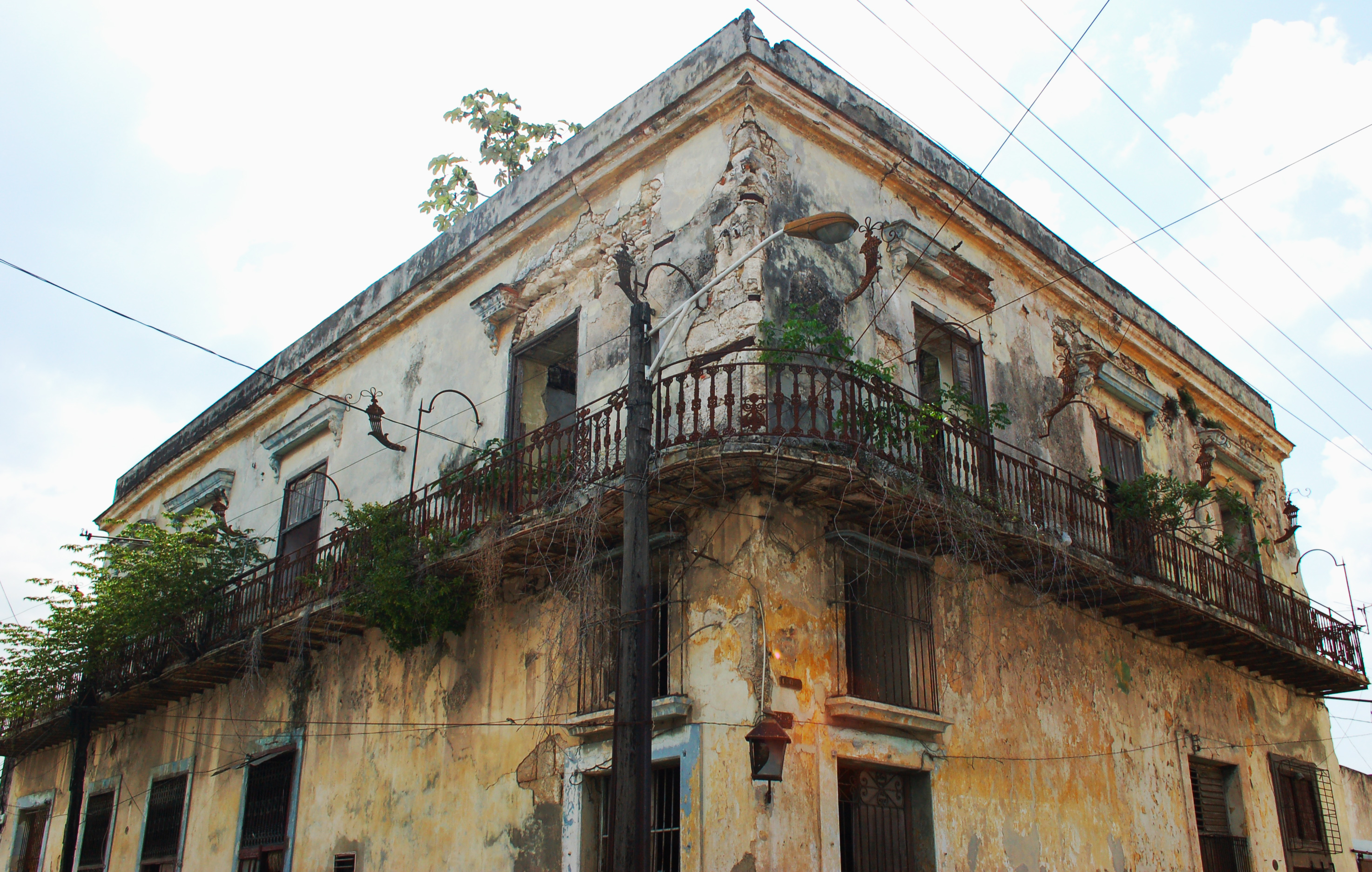 The ruins of the “Casa de las Cadenas”, is one of the most ancient constructions of Guanabacoa, her manufacturing dates of 1724, and it is considered of great worth for her Stately architecture and her influence in her of the elements of the Mudejar Architecture of Arab procedence.